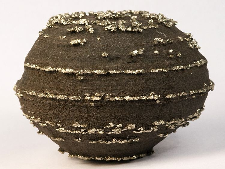 Pyrite Locality: Dongchuan District, Kunming Prefecture, Yunnan Province, China (Locality at ) Size: 7.5 x 6.5 x 5.5 cm. An amazing pyrite concretion from a new Chinese find. This striking, slightly flattened ball of parallel bands of sparkly pyrite microcrystals on shale looks like a hand-woven basket or clay pot inset with pieces of precious metal. The concentration of pyrite on the “lid” and bottom has a striking look. A unique and fine specimen.